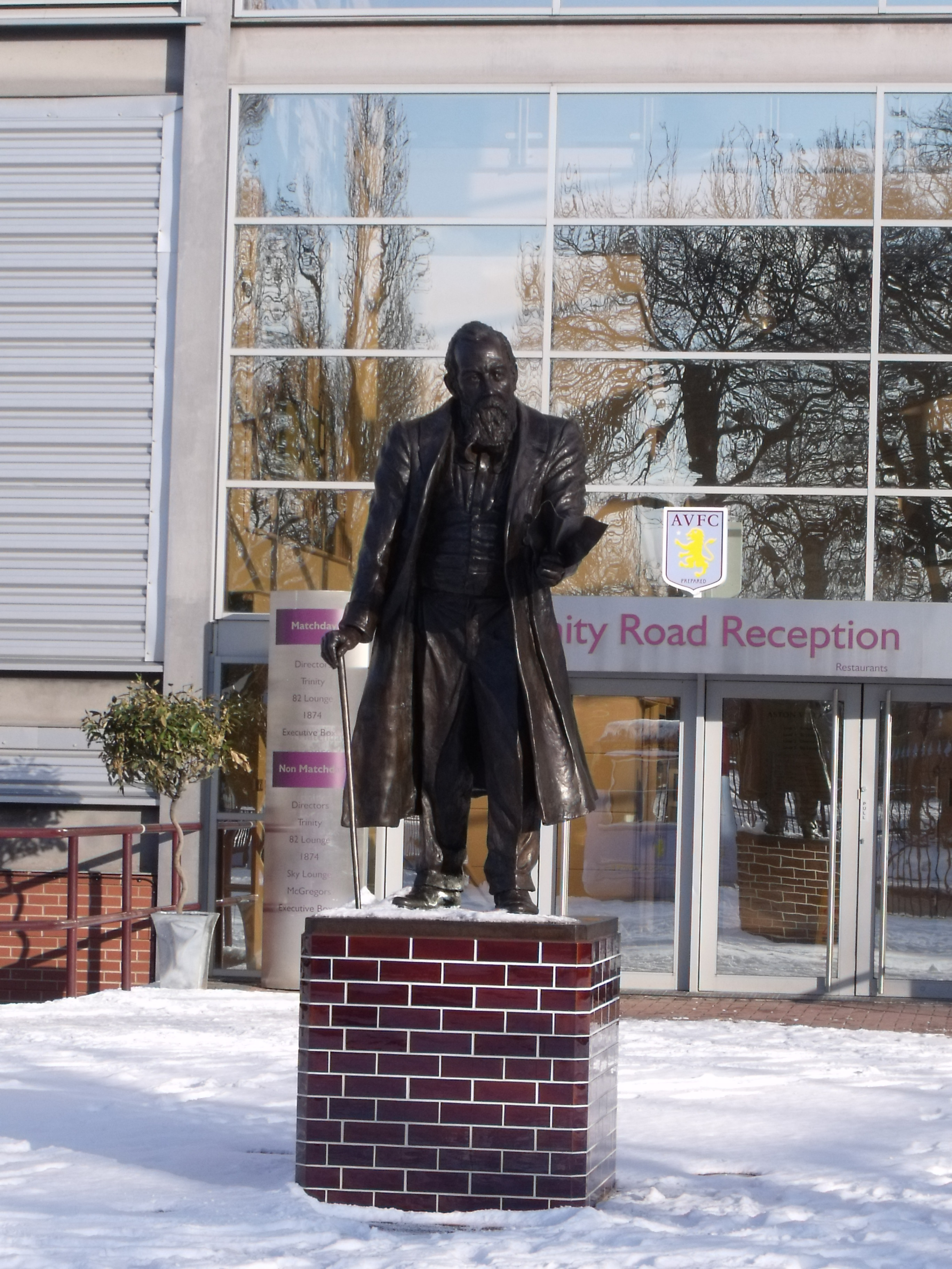 A statue of William McGregor outside the Trinity Road Stand of Villa Park. McGregor served the club in various capacities including Director, Chairman and President from 1877 to his death in 1911. McGregor founded The Football League, the first organised League for association football in the world.